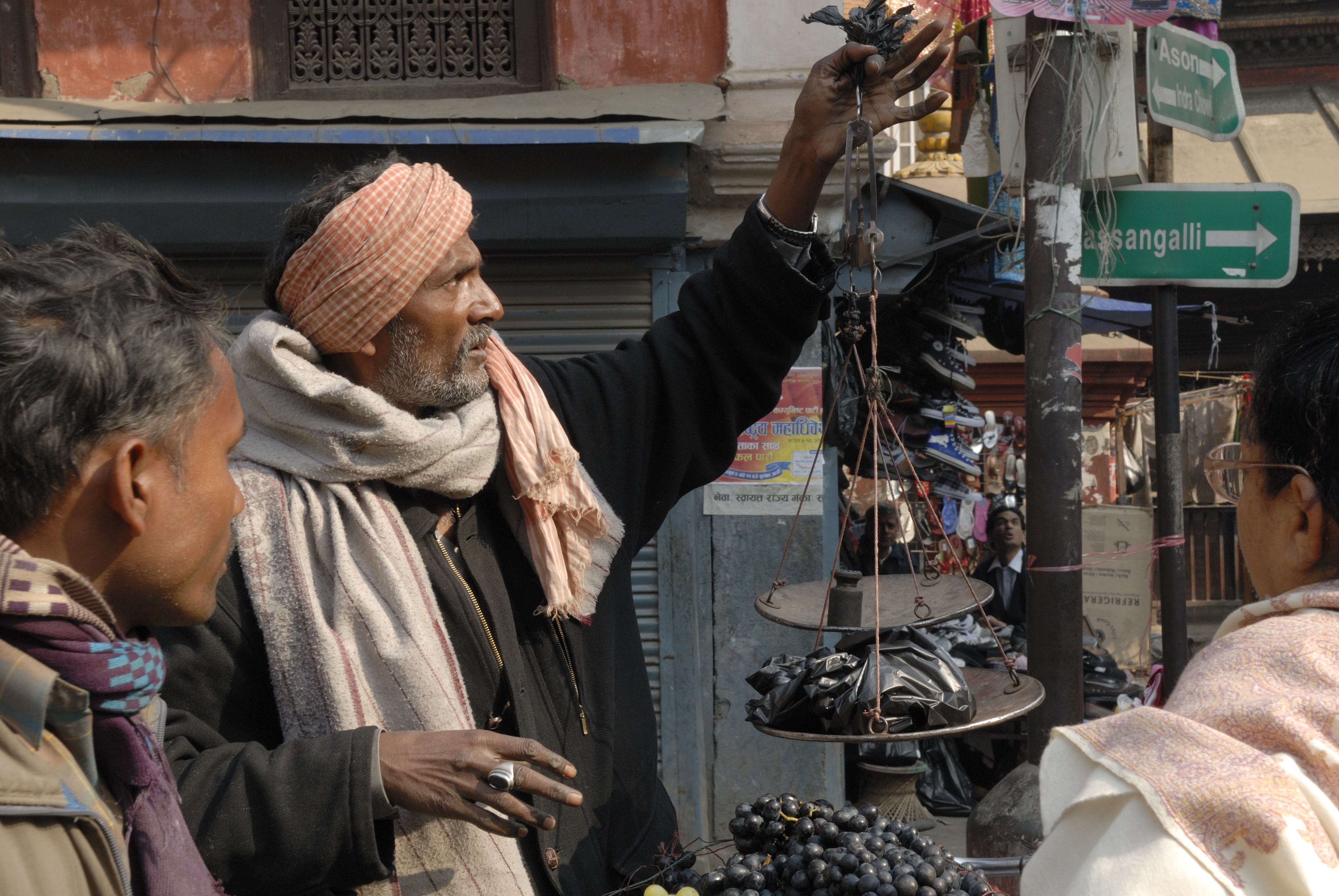 Selling grapes on Makhan Tole, Kathmandu